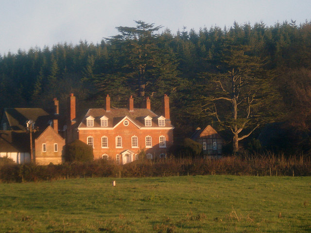 Elton Hall View east to the front of the hall, which is just catching the last rays of the December sun. The present Gothic-style house was remodelled in the 1760s around an existing half-timbered core. Thomas Andrew Knight lived here between 1791 and 1808, after which he moved to Downton Castle. Knight created the landscape park and was a leading breeder of fruit varieties. Some of these varieties are still around in the orchard here, including apples ‘Bringewood Pippin’ and ‘Elton Beauty’, cherry ‘Black Eagle’ and pear ‘Monarch’. Knight was one of the founder members of the Royal Horticultural Society and later becaume its president. Today the gardens hold national collections of echinaceas and rudbeckias.